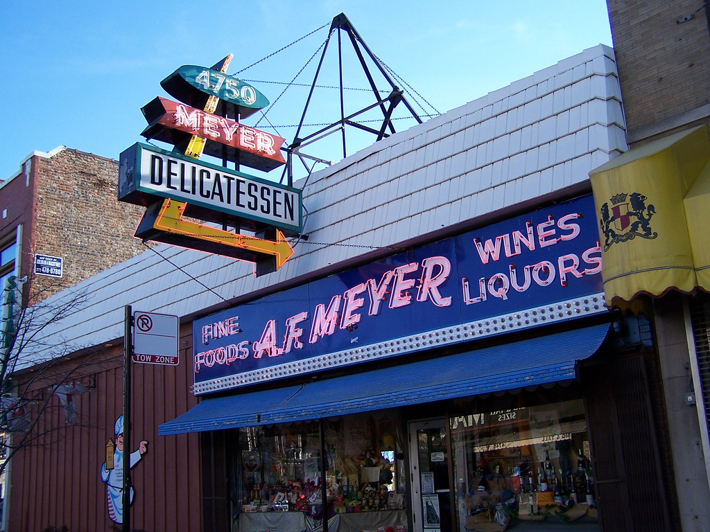 The old Meyer Delicatessen in Lincoln Square, Chicago. It has since been torn down and Gene's Sausage Shop now occupies the space.